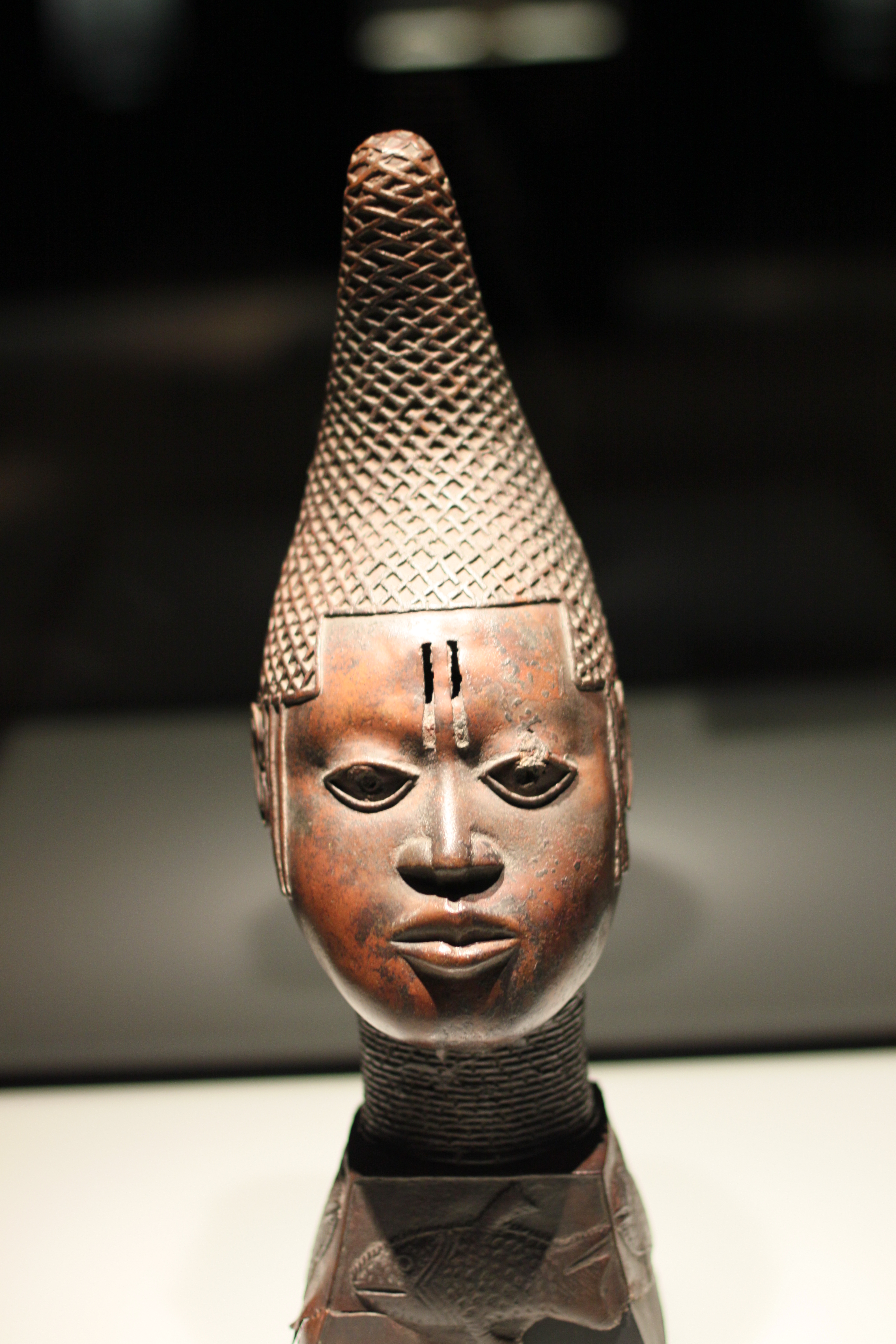 Head of a queen mother ioyba, Nigeria, Kingdom of Benin, early 16th century, gun bronze; Africa department, Ethnological Museum, Berlin, Germany, Inv. No. III C 12507 (collection Theodor Francke, acquired in 1901)